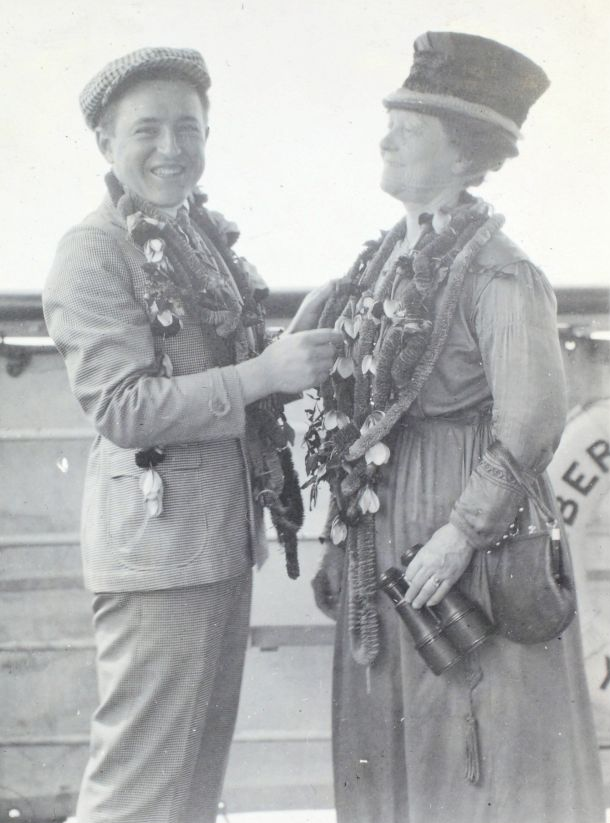 Images from an album (AL-88) featuring Albert Menasco. It focuses on his aviation exhibition trip to Asia with Art Smith. SOURCE INSTITUTION: San Diego Air and Space Museum Archive Images from an album (AL-88) featuring Albert Menasco. It focuses on his aviation exhibition trip to Asia with Art Smith. SOURCE INSTITUTION: San Diego Air and Space Museum Archive